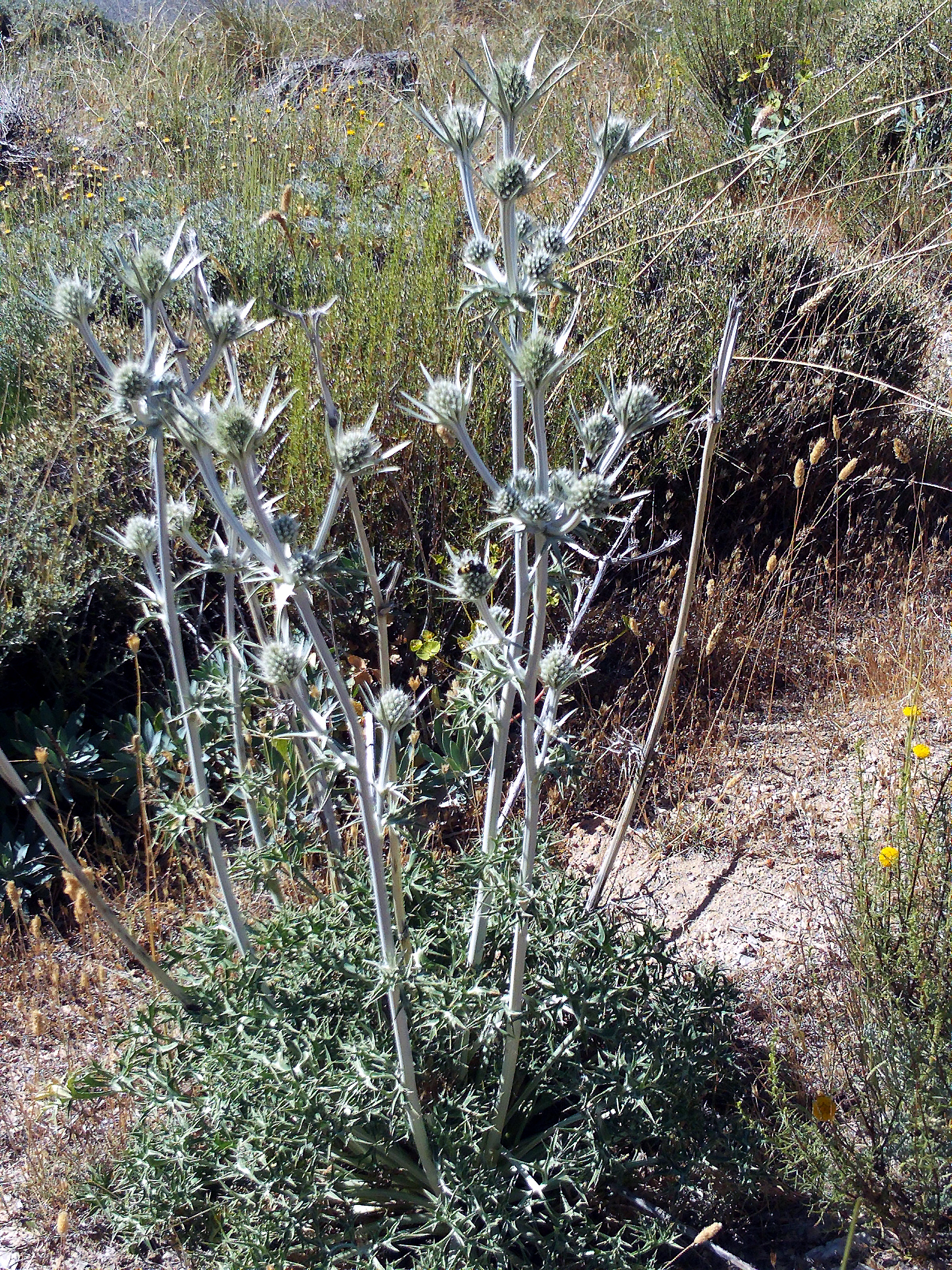 Eryngium_glaciale_Habitus, endemic of Sierra Nevada, Spain